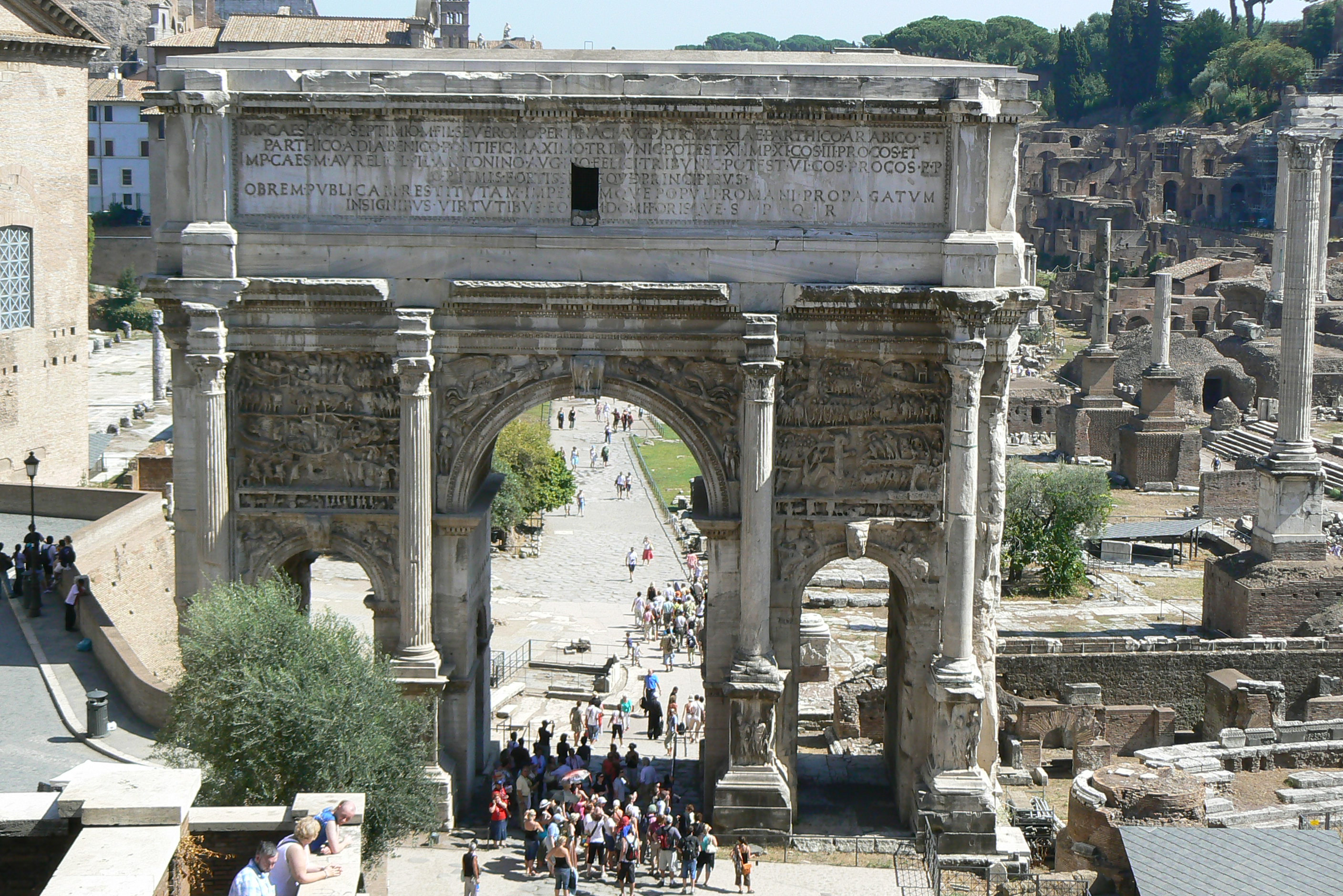 Rome, Forum Romanum, Arch of Septimius Severus